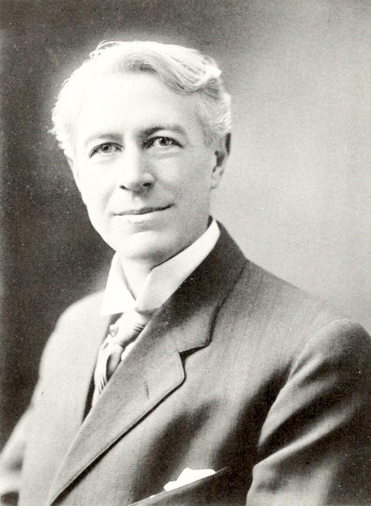 Henry Lawrence Southwick (18xx- January 1932) was the third president of Emerson College of Oratory (now Emerson College), located in the Back Bay, Boston, MA.